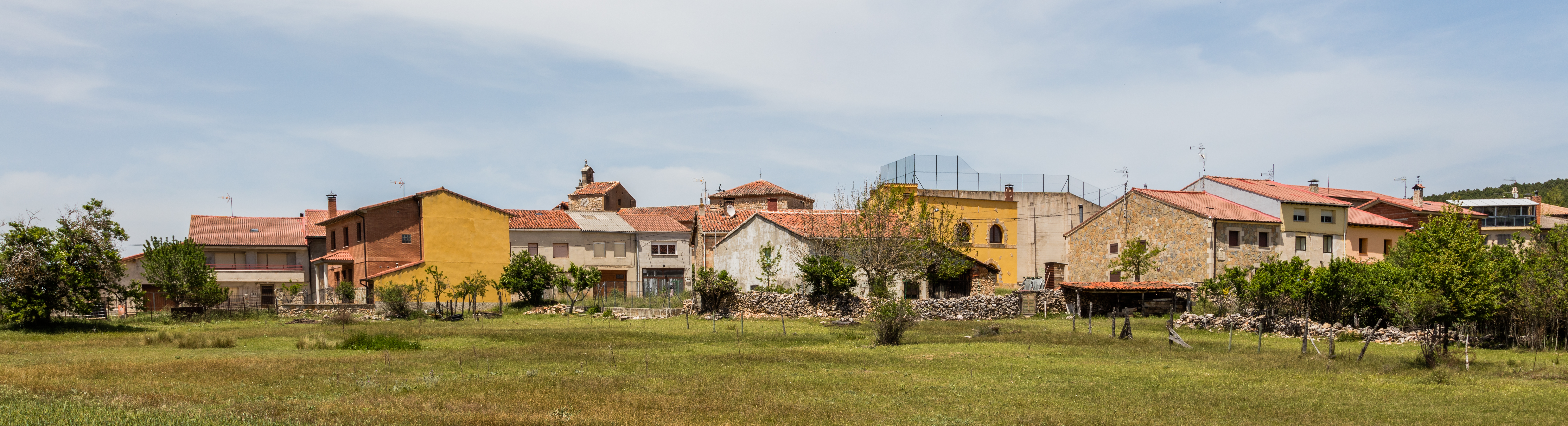 Muñecas, Soria, Spain